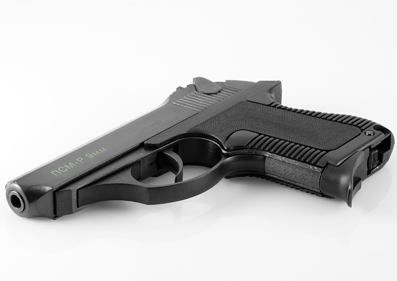 Less Lethal (traumatic) pistol PSM-R.